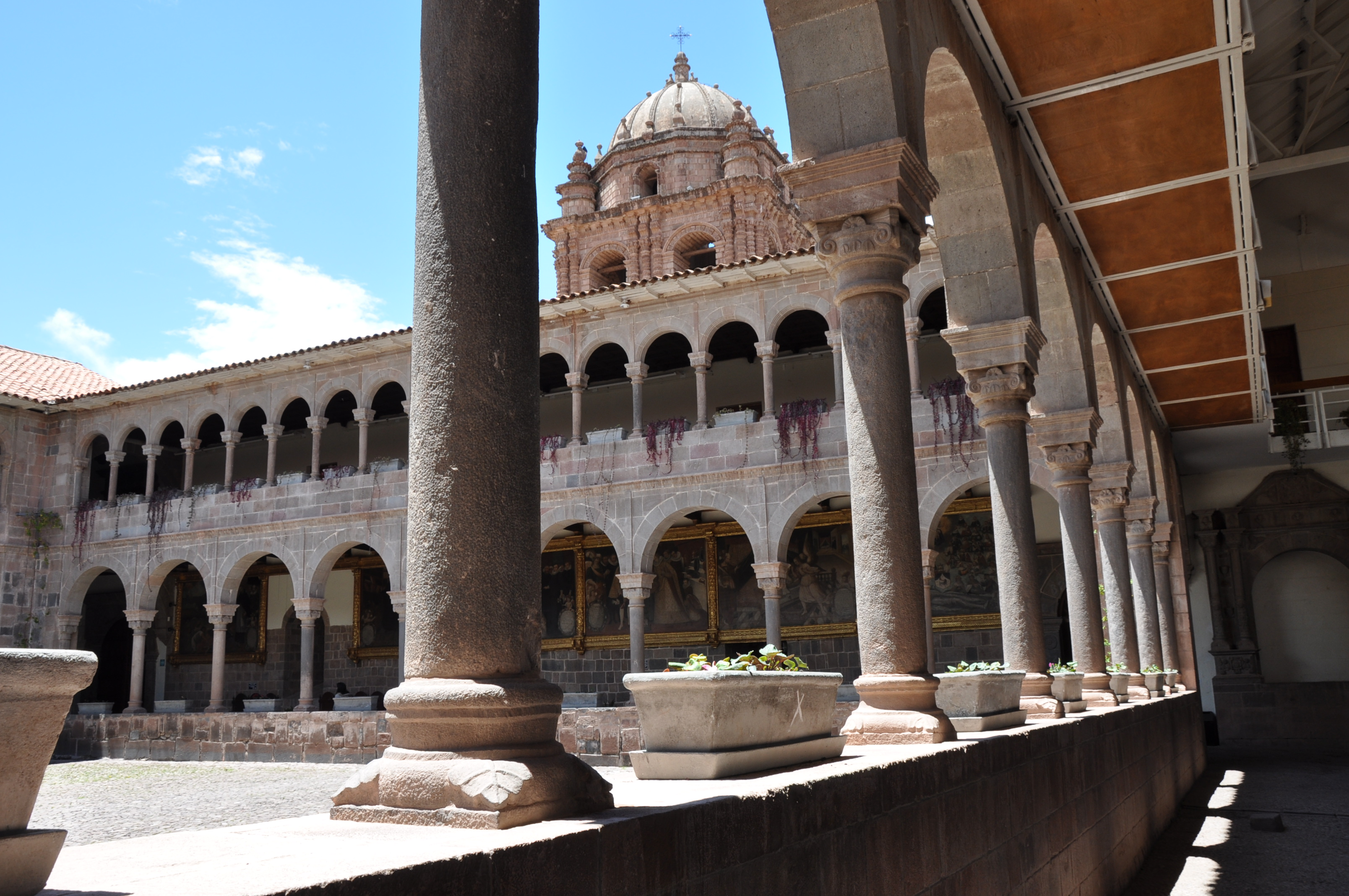 The church of Santo Domingo is most famous as the site of Qorikancha, which was Cuzco's major Incan temple. It has twice been destroyed by earthquakes, in 1650 and 1950, as well as being damaged in the 1986 earthquake - photographs in the entrance show the extent of the 1950 damage. Also in the entrance is a doorway carved in Arabic style - a reminder of the centuries of Moorish domination in Spain. The remains of the Incan temple are inside the cloister. Colonial paintings around the outside of the courtyard depict the life of Santo Domingo (Saint Dominic) and contain several representations of dogs holding torches in their jaws - these are God's guard dogs (dominicanus in Latin), hence the name of this religious order